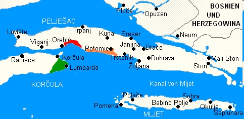 Wine regions of Dingac, Postup and Grk